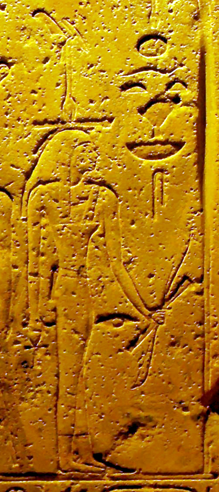 This is an important stela which dates to the period between the coregency of Hatshepsut and her stepson / possible son-in law (and successor) Thutmose III from the early 18th dynasty of Egypt. It depicts Hatshepsut (the female king on the centre left) and Thutmose III (behind her) who ruled together during the early New Kingdom.